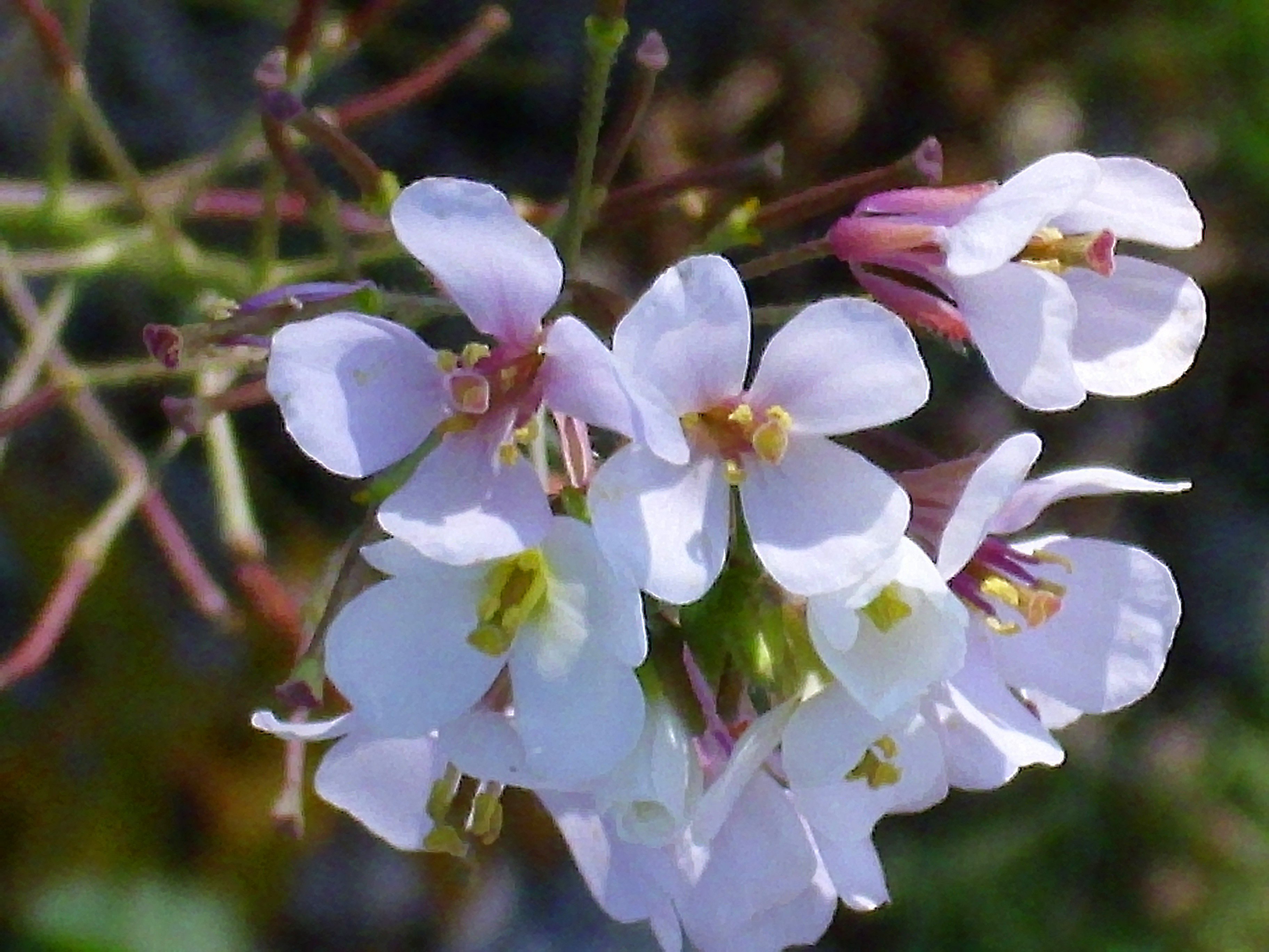 Diplotaxis erucoides close up, Sierra Madrona, Spain